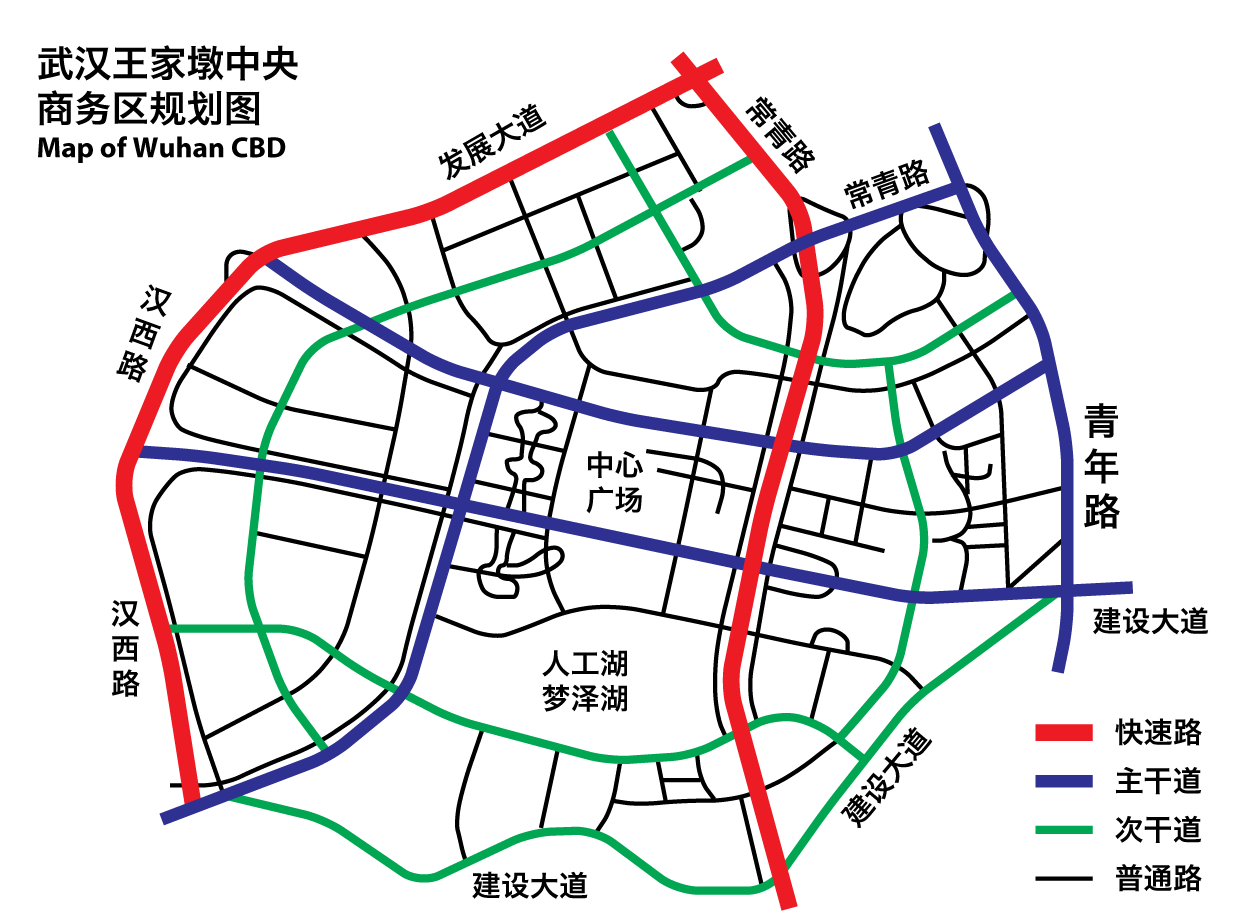 Map of Wuhan CBD (Wangjiadun)